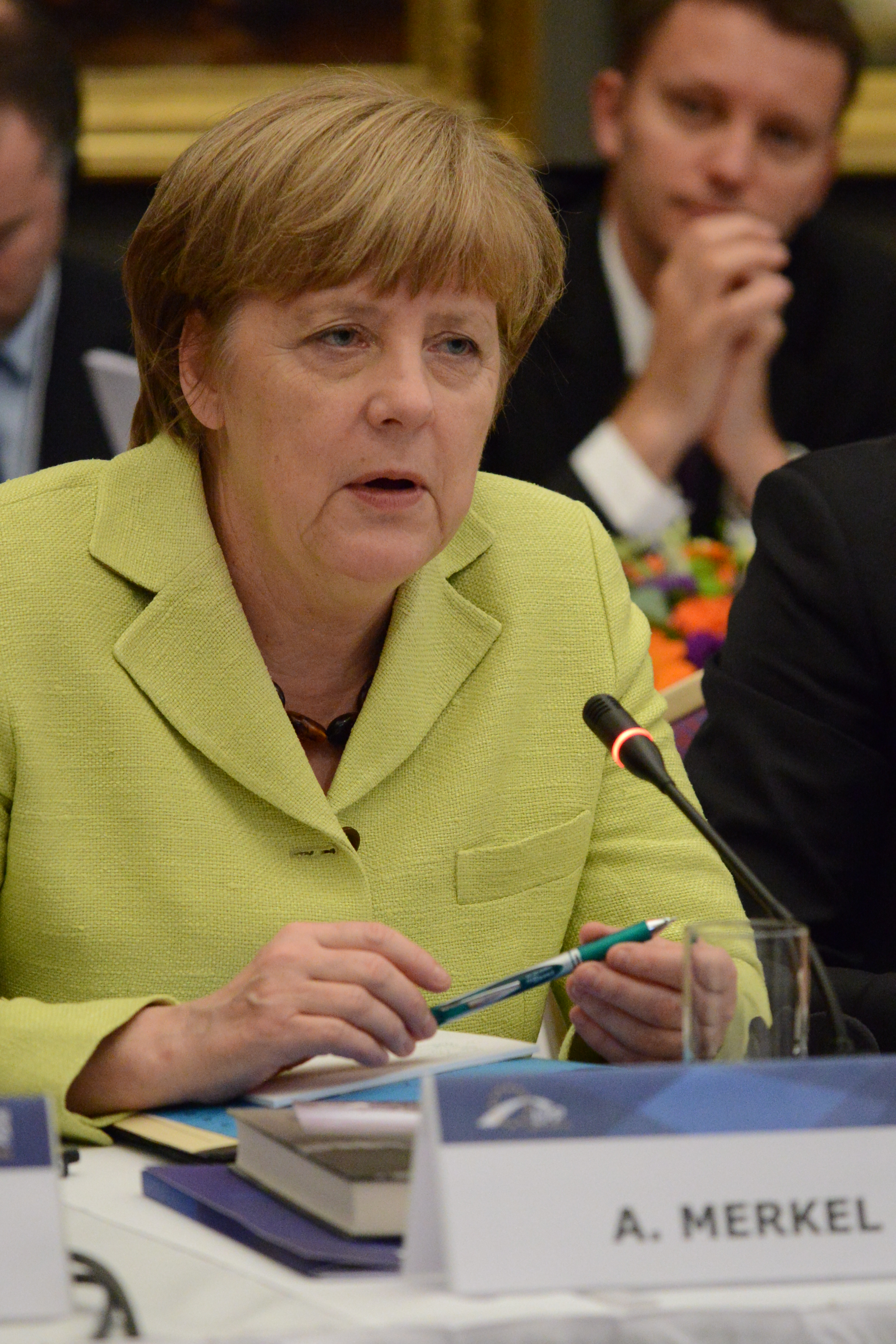 EPP EaP Leaders' Meeting - 21 May